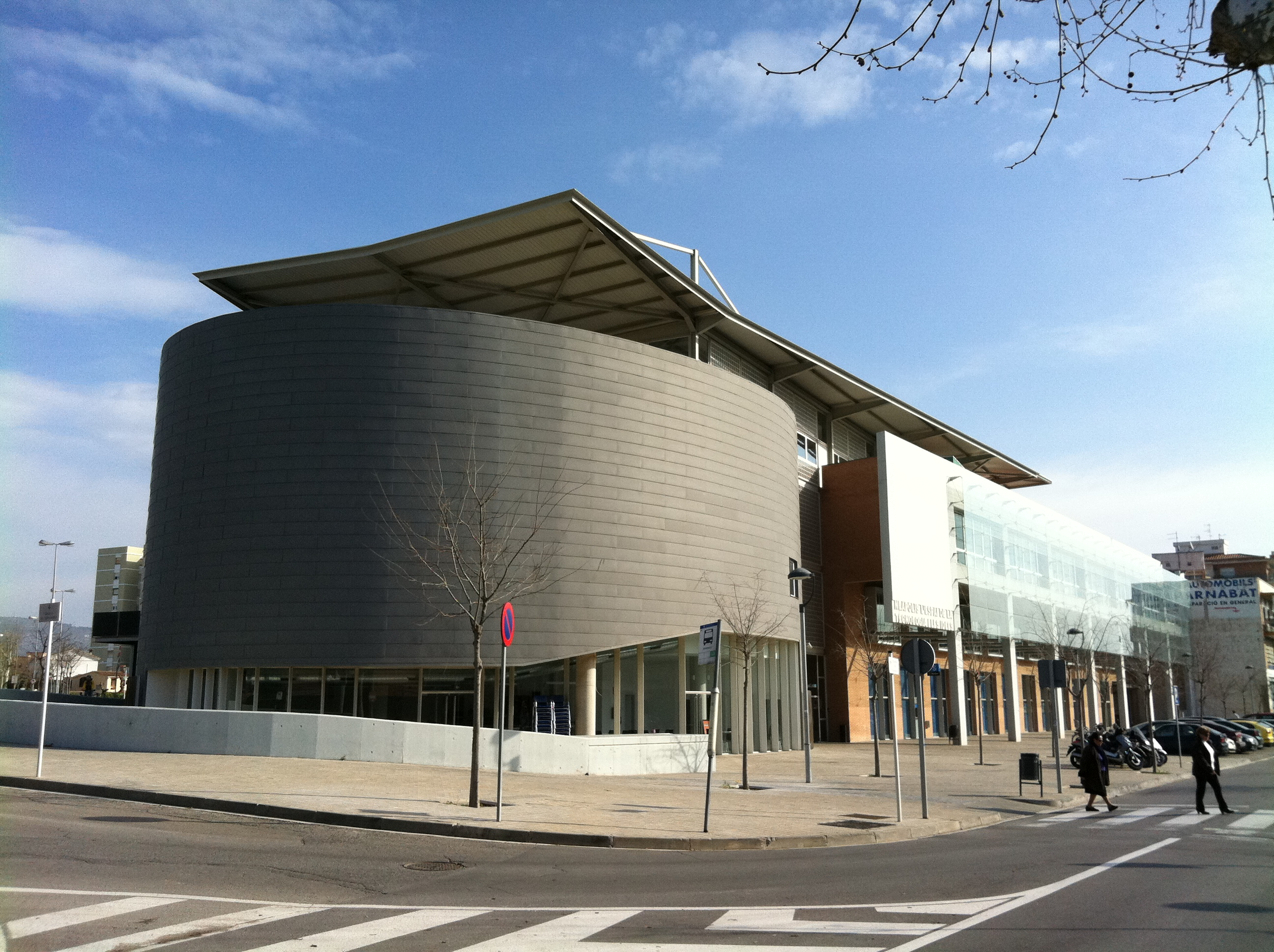 Neapolis network building at Vilanova i la Geltrú, Catalonia